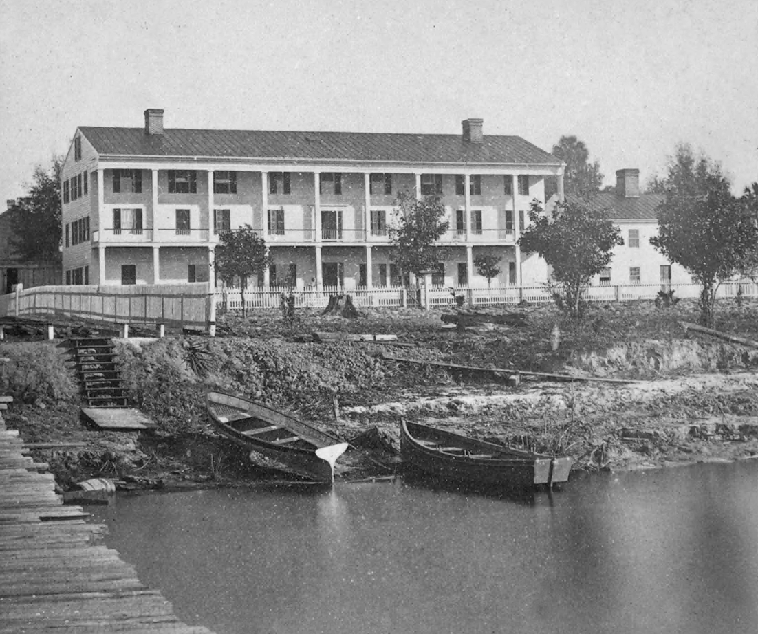 Brock House in Enterprise, Florida - c. 1875 (digitally enhanced)